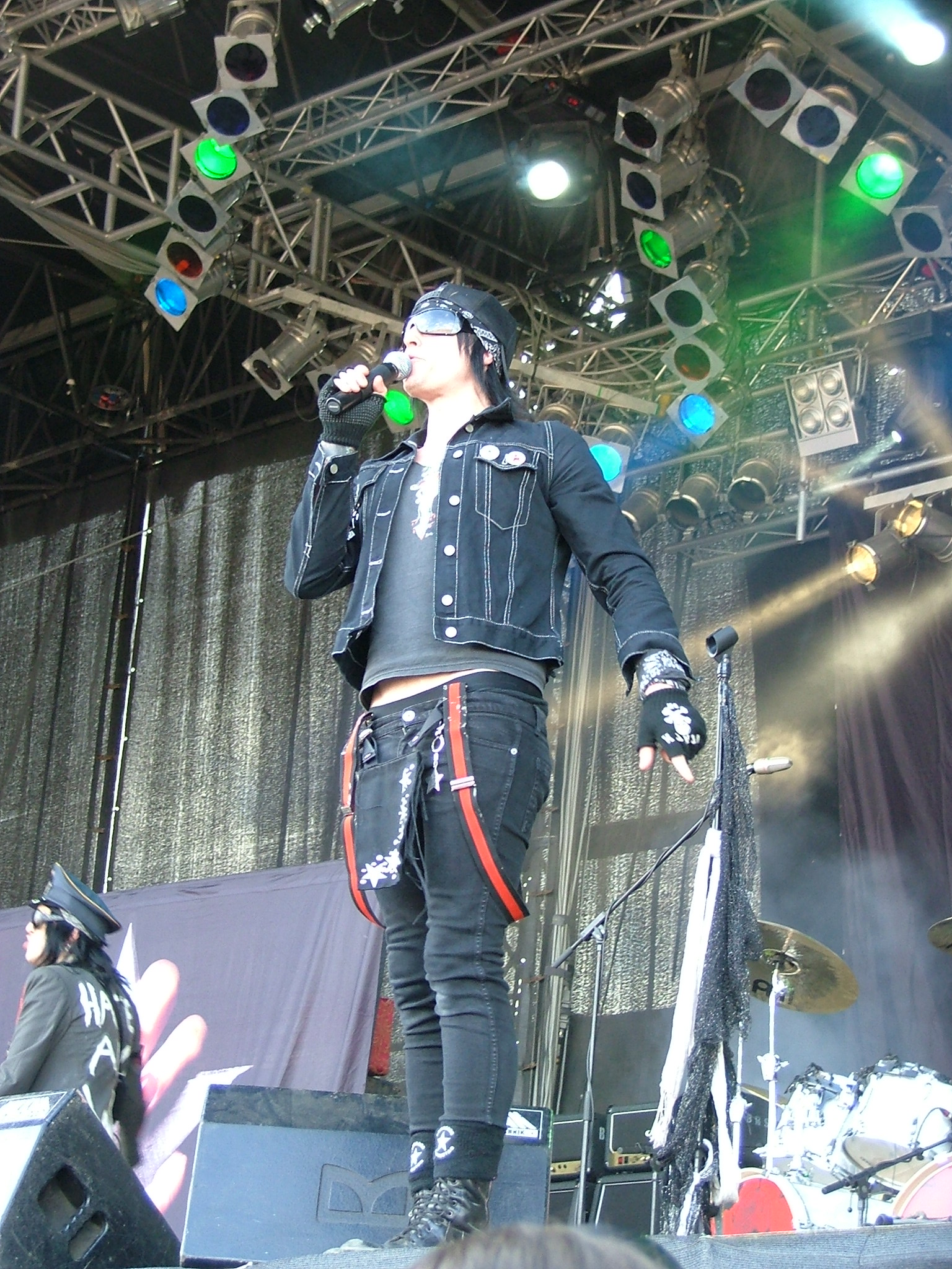 Swedish hard rock and sleaze rock band Hardcore Superstar at the Summer Breeze in Dinkelsbühl